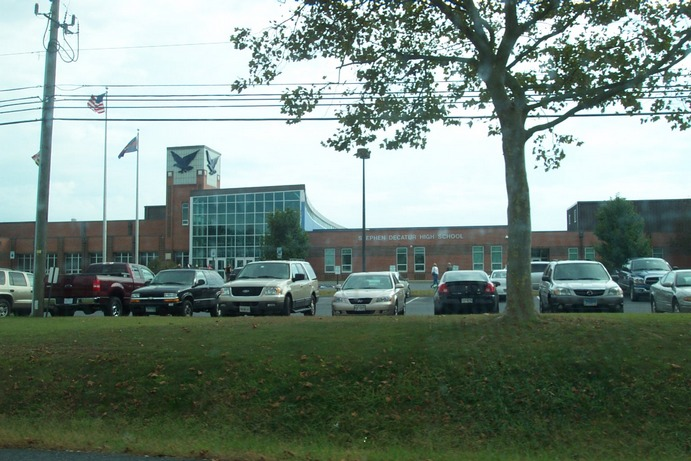 Stephen Decatur High School, in Berlin, Maryland